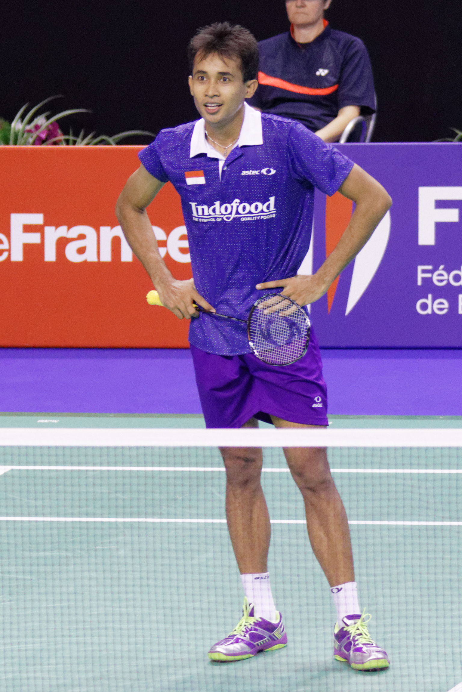 2013 French open. Men's singles eightfinal. Dionysius Hayom Rumbaka vs Sony Dwi Kuncoro.